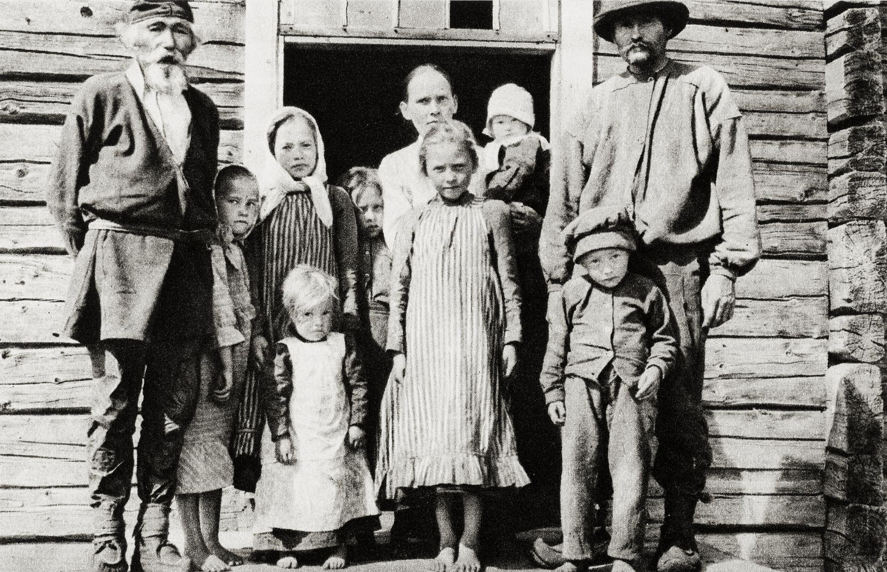 Settled Sami (Lapplander) farmers in Stensele, Västerbotten, Sweden. PC published in 1926. Read more in Saamiblog